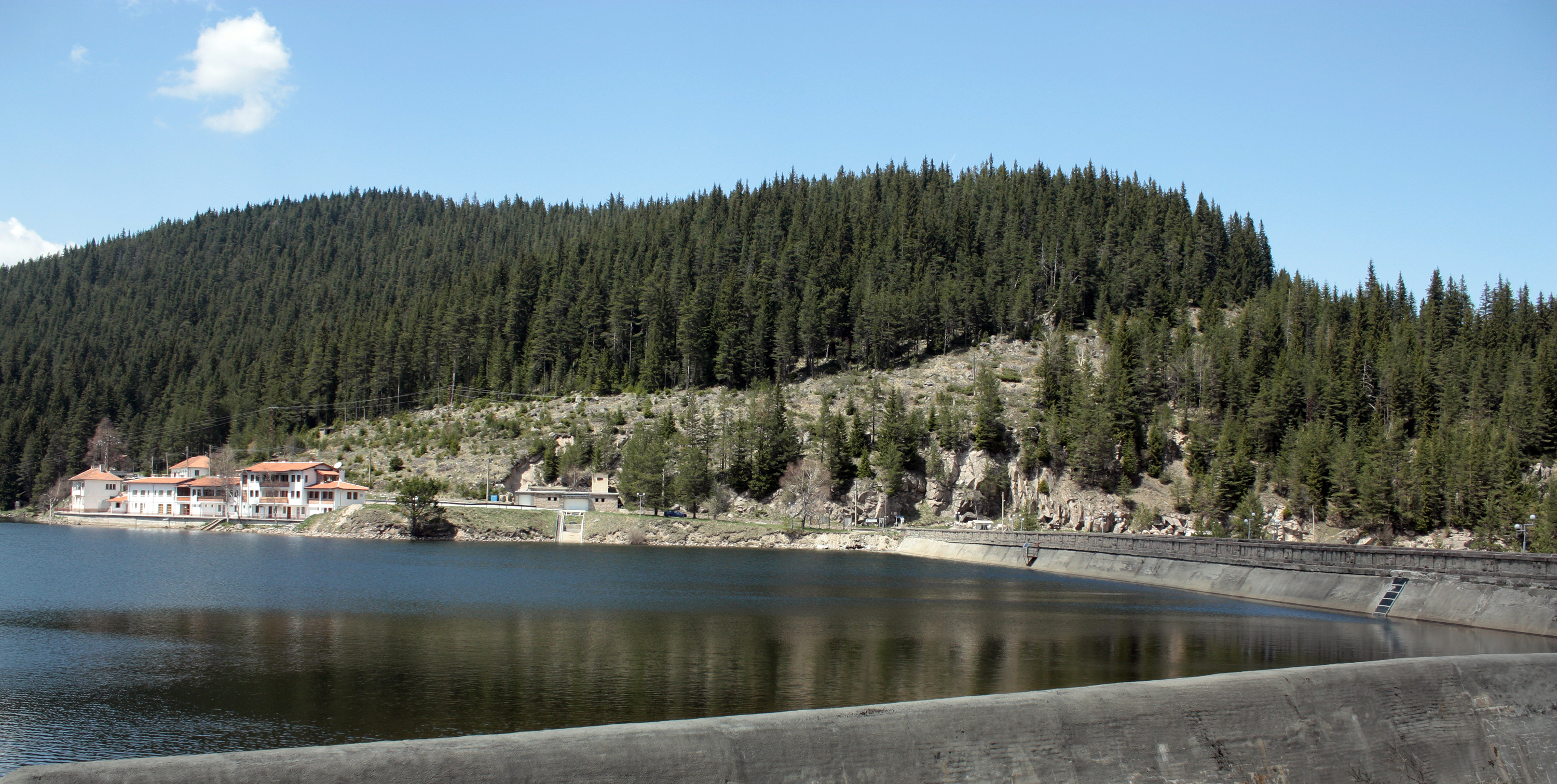 Golyam Beglik Dam wall in Bulgaria, built 1951